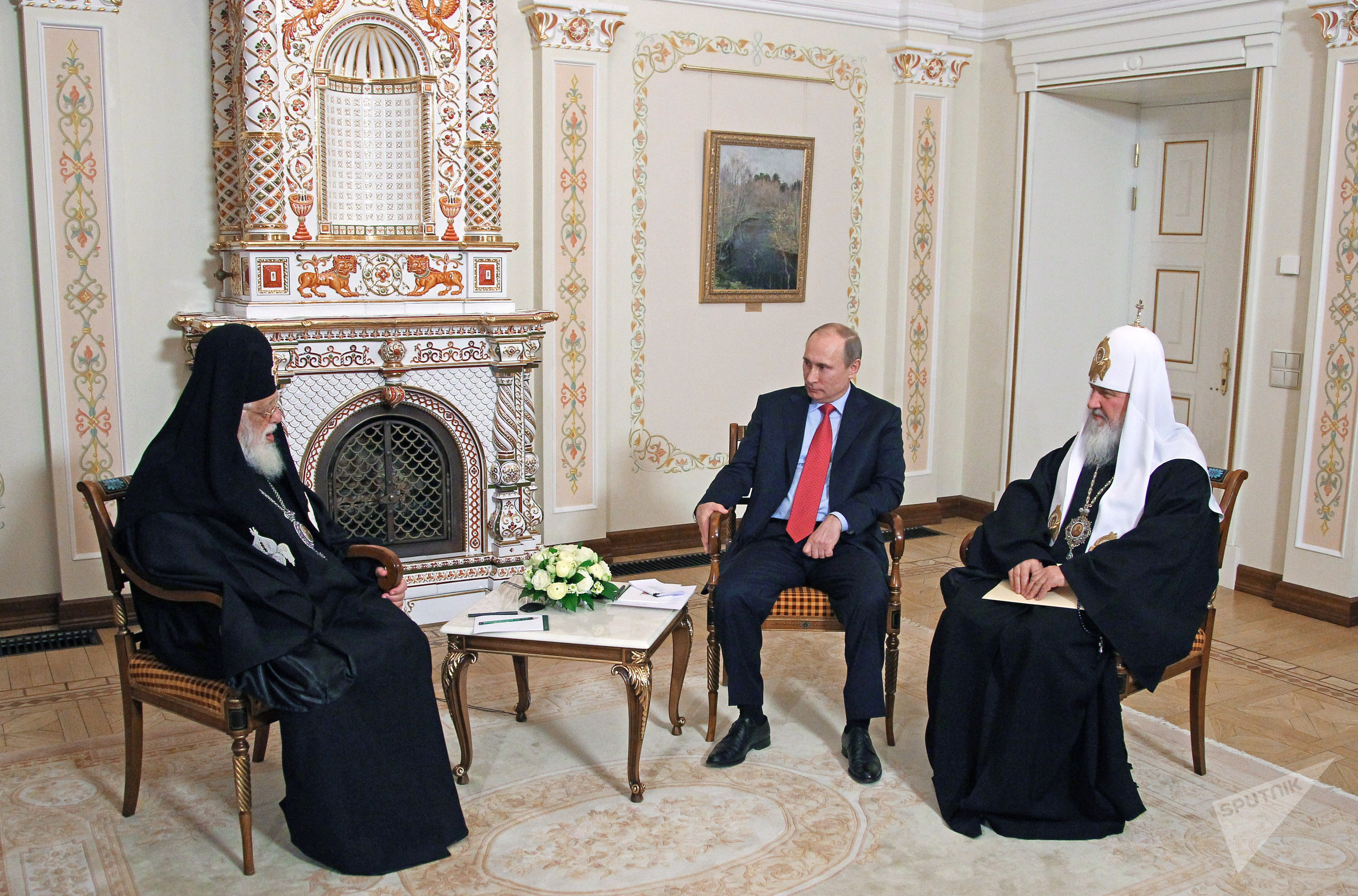 Patriarch Ilia II of Georgia meets President V. Putin of Russia and Patriarch Kirill of Moscow at the Kremlin, Moscow. 23 January, 2013.